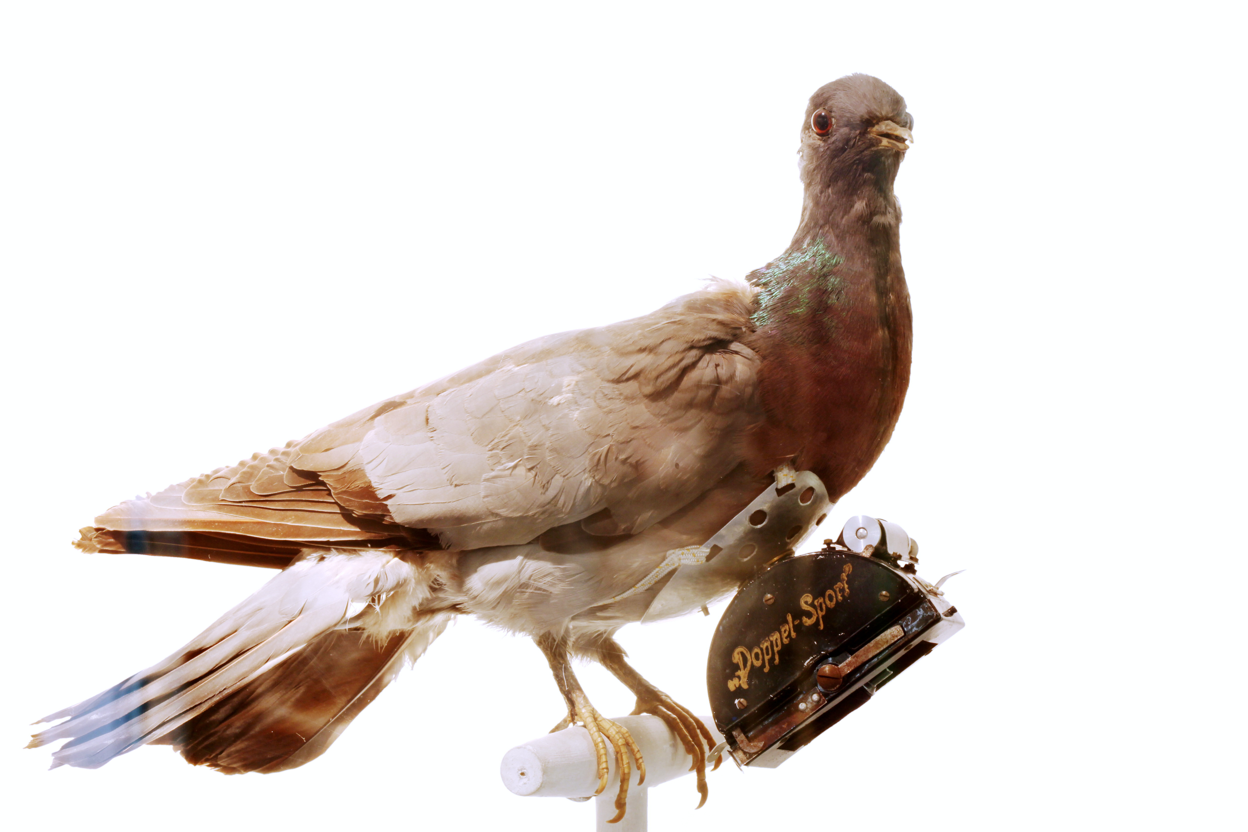 Pigeon photographer, carying a small format automatic camera. On display at Vevey phtography museum.